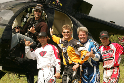 Ken Faught Helicopter